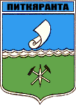 Coat of Arms of Pitkyaranta